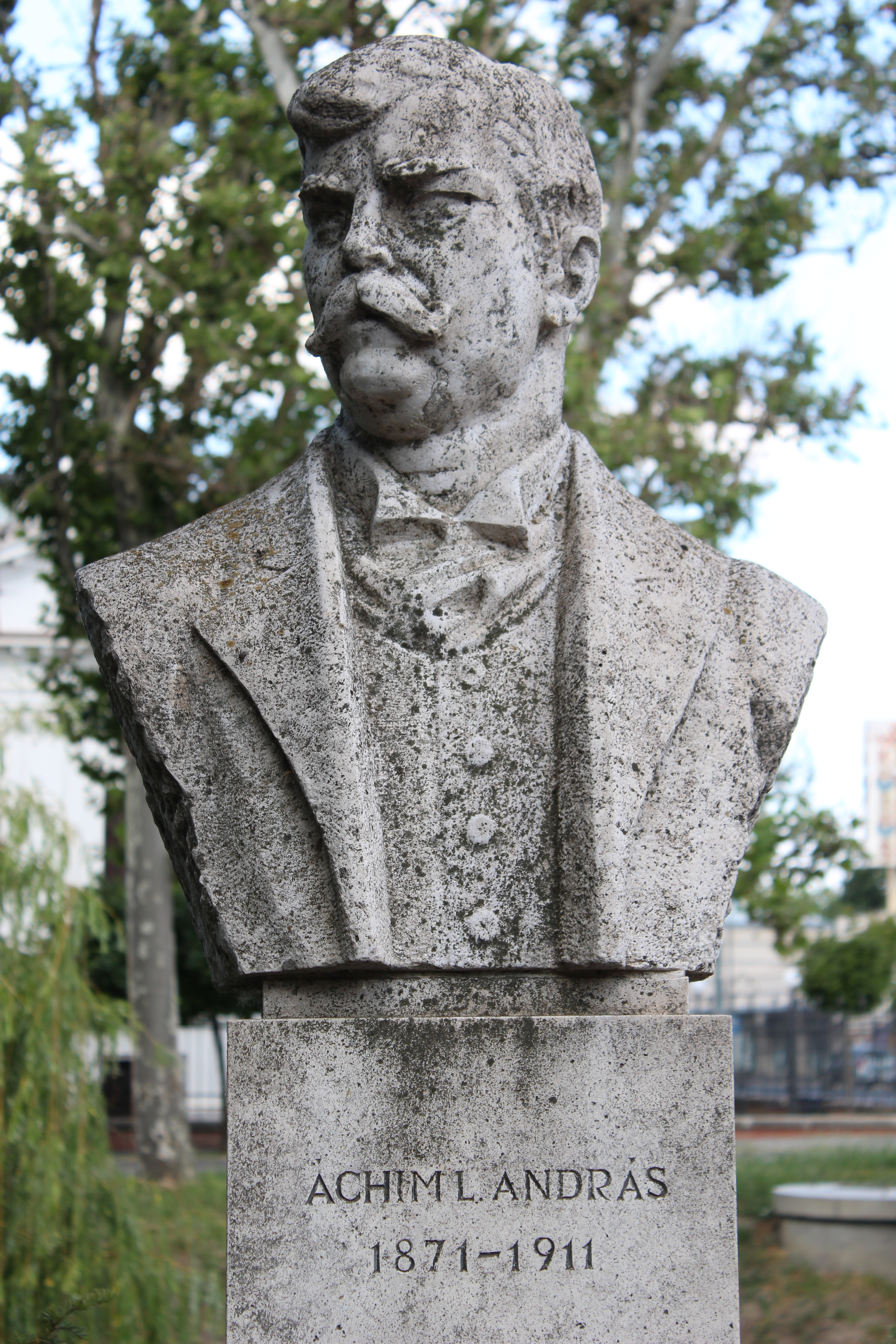 Bust of András Áchim L. (Békéscsaba, Hungary). Sculptor: László Marton, 1971.